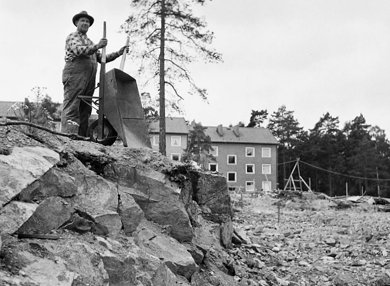 Blackeberg. En man med en skottkärra vid byggområde. 1955-1955FOTOGRAF: Michanek, Bengt (Fotograf.).BILDNUMMER: SvD 38281Stadsmuseet i Stockholm